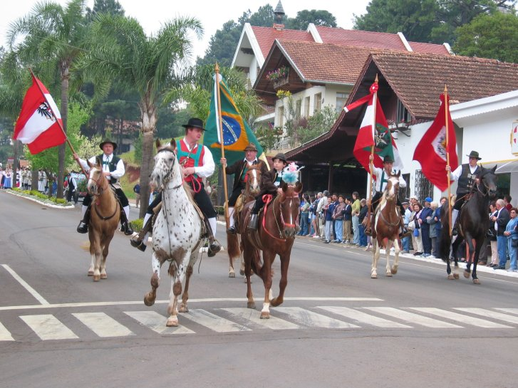 Treze Tílias - Dreizehnlinden, procession during the "Tyrolian Festival" in the tyrolian village Treze Tílias in southern Brasil